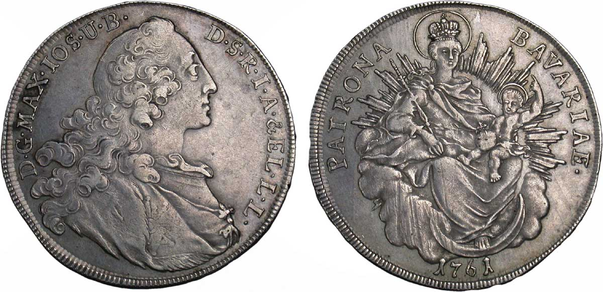 Thaler du duché de Bavière à l'effigie de Maximilien III Joseph, 1761